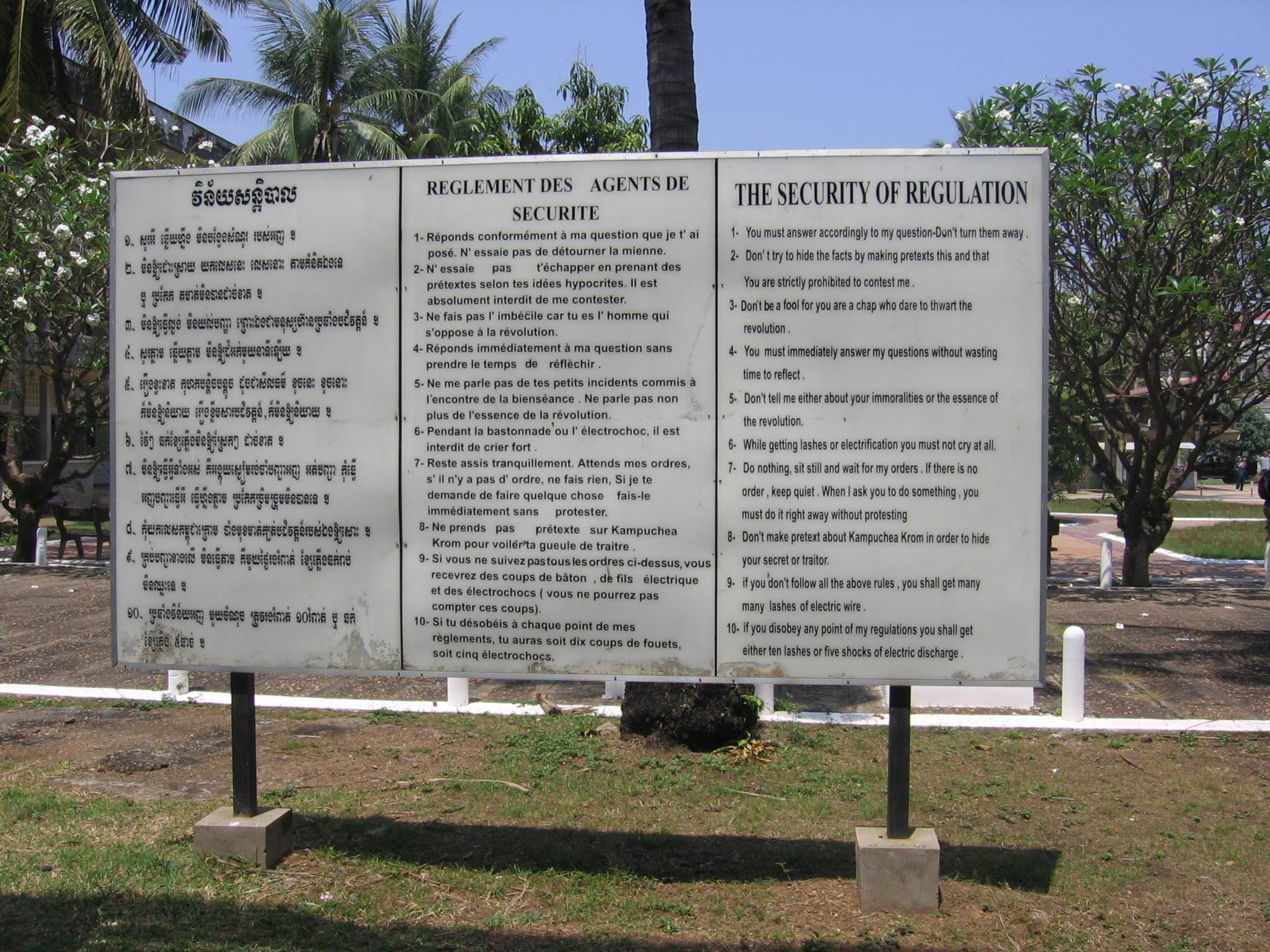 Own work taken in the Tuol Sleng Museum with permission from the Museum administration on March 13, 2006. Donated to the Wikipedia system and it can be considered wikipedian document. Albeiro Rodas, Cambodia, July 2006.